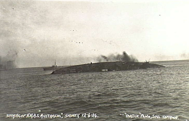 Photograph of Australian battlecruiser HMAS Australia on her port side and sinking, after being scuttled 24 miles off South Head, Sydney. HMAS Anzac is in the background. She finally sank at 1451.